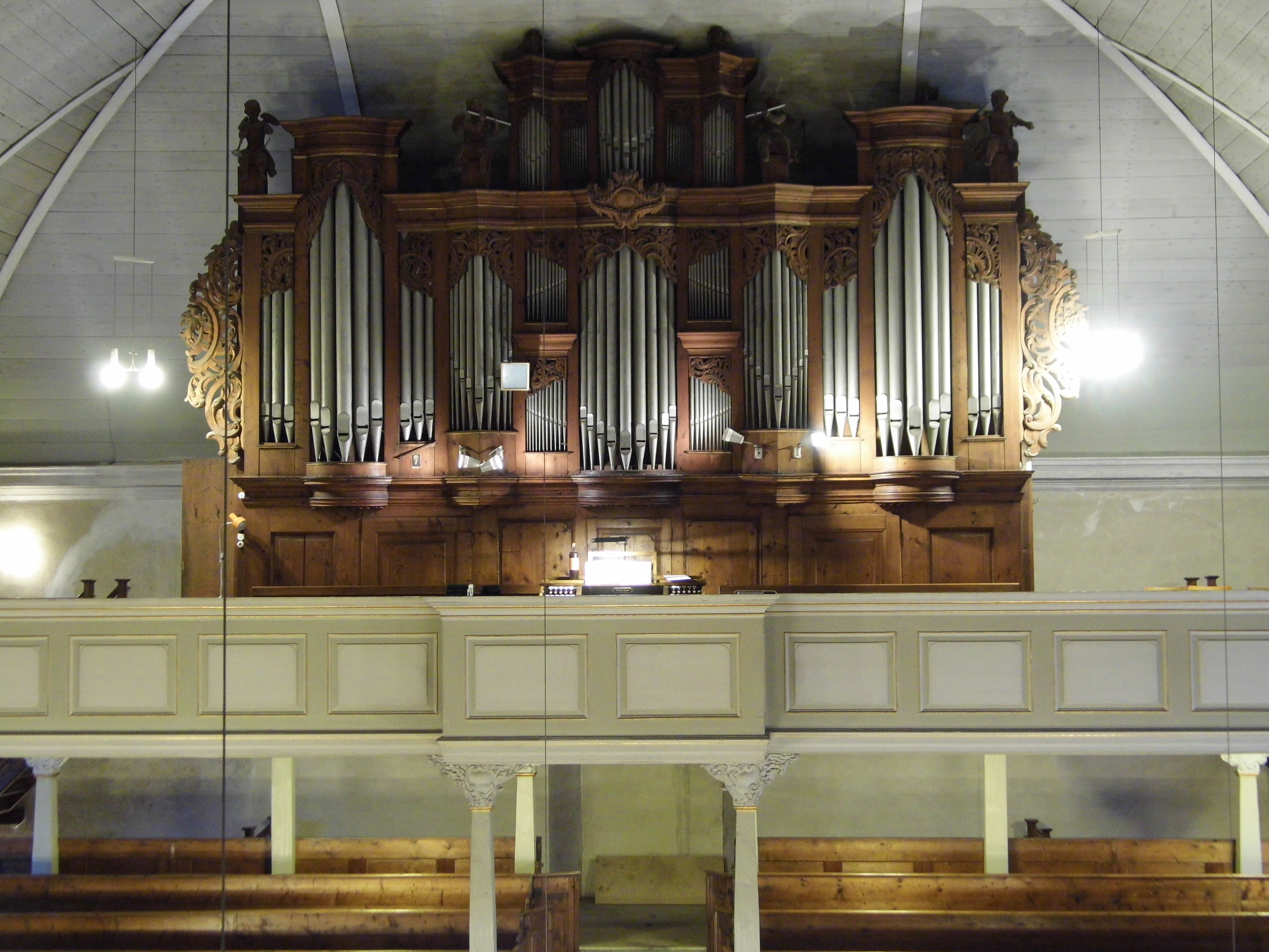 Die Sauer-Orgel im barocken Prospekt der Vorgängerorgel auf der oberen Westempore